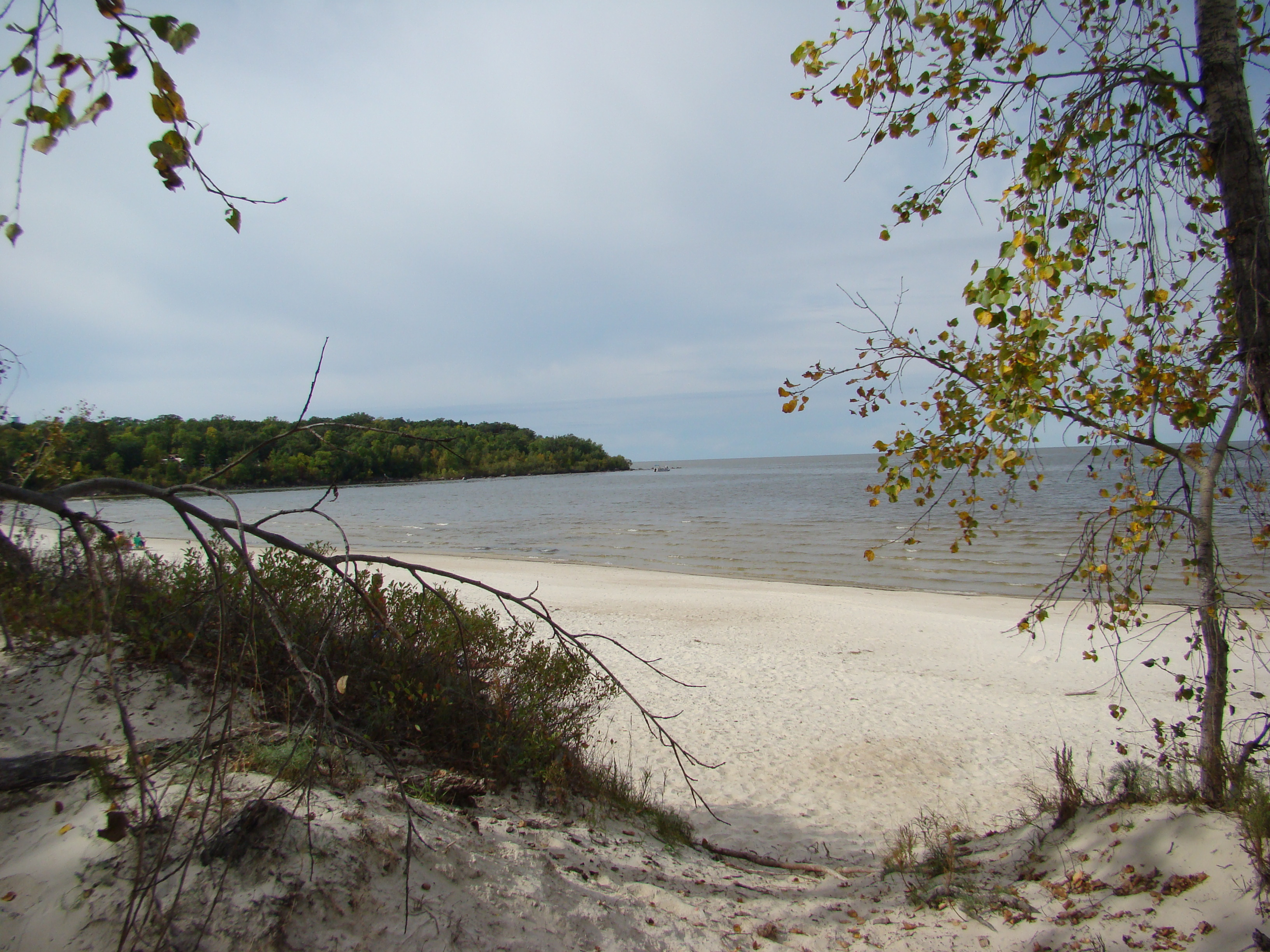 Grand Beach Provincial Park, Manitoba, Canada